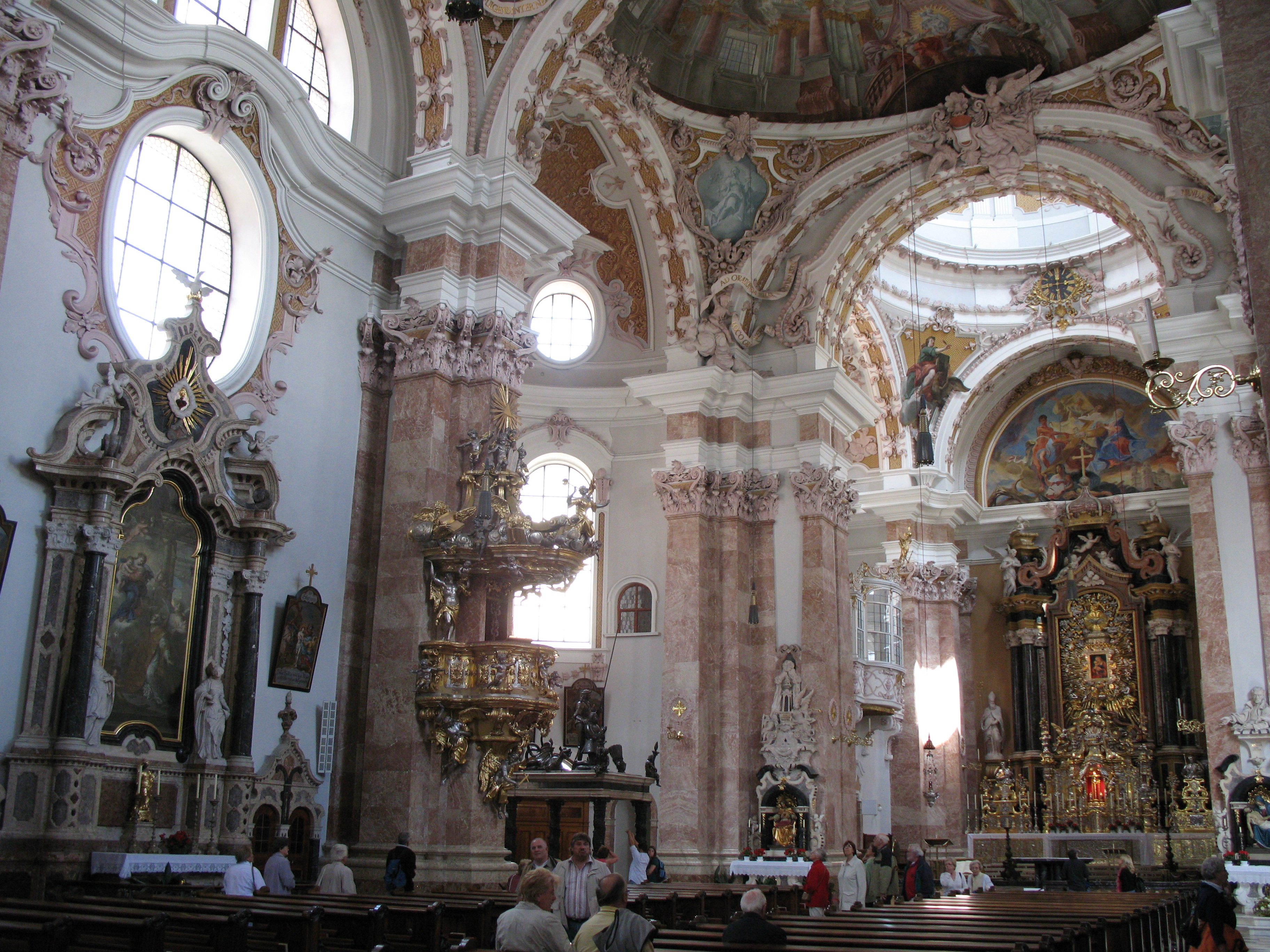 Cathedral of St. Jacob, Innsbruck, Austria